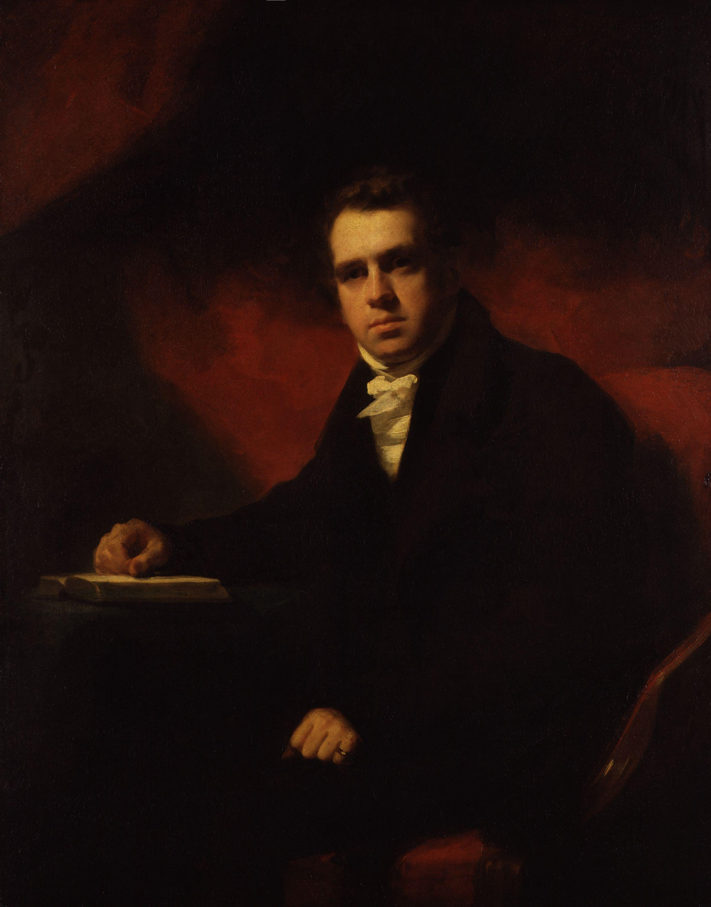 Francis Horner, by Sir Henry Raeburn (died 1823), given to the National Portrait Gallery, London in 1877. All images in this batch have been confirmed as author died before 1939 according to the official death date listed by the NPG.